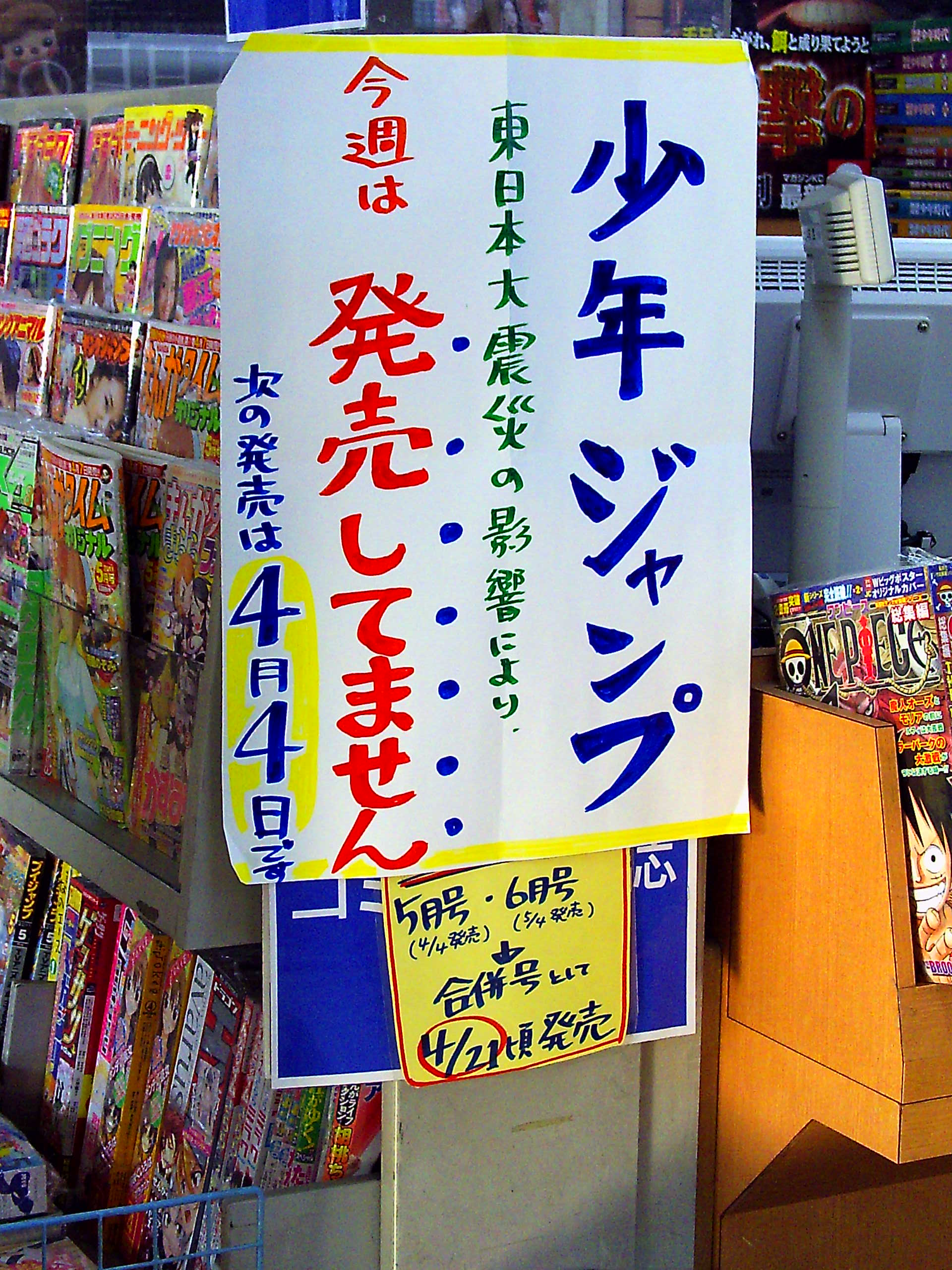 Touhoku Tsunami Shock at JR-West Amagasaki Station